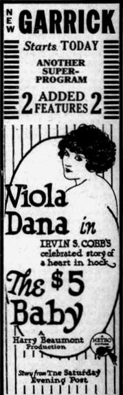 Newspaper advertisement for the American film The Five Dollar Baby (1922) with Viola Dana, on page 9 of the July 29, 1922 Duluth Herald.